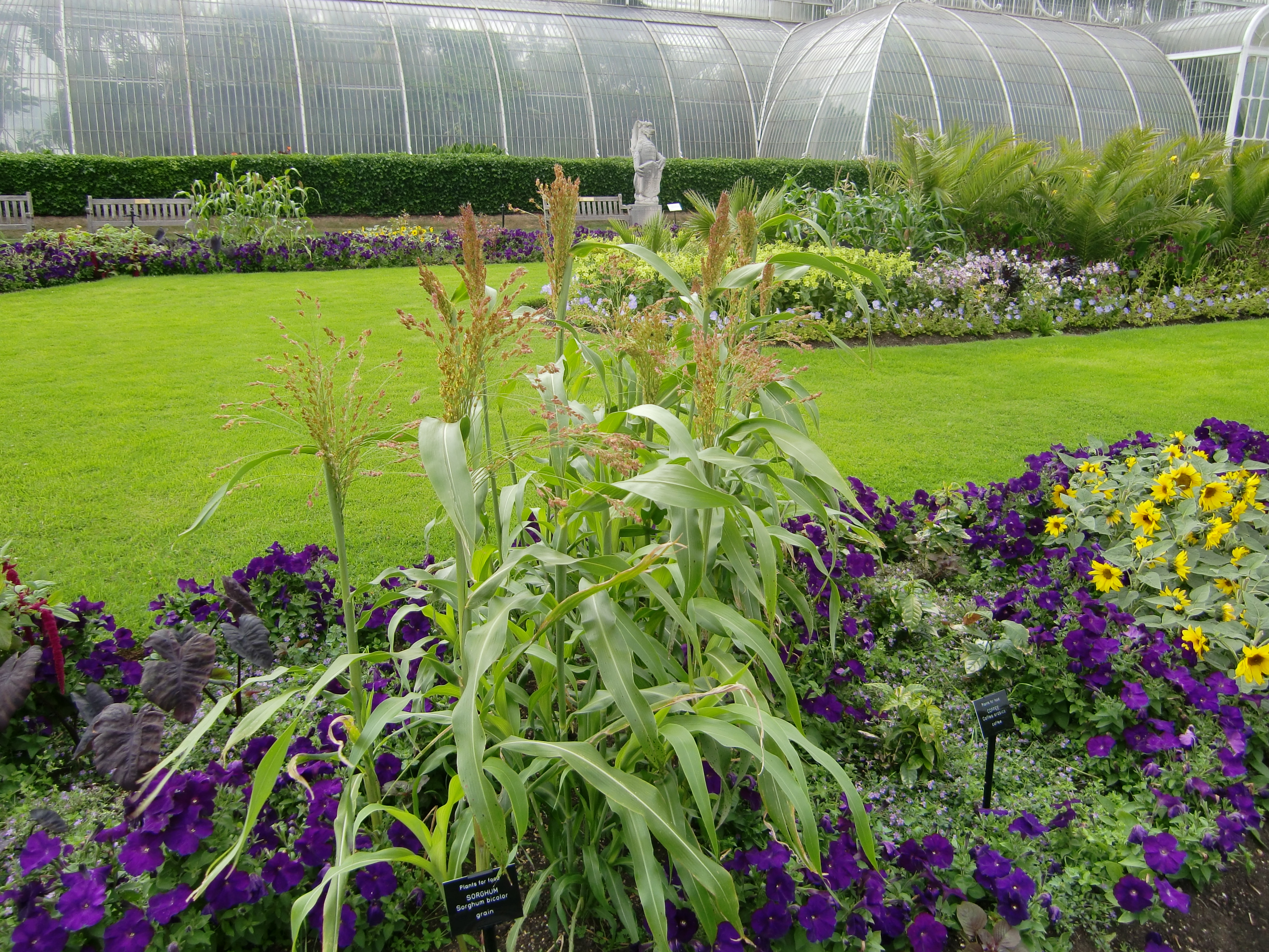 sorhgum bicolor growing at Kew